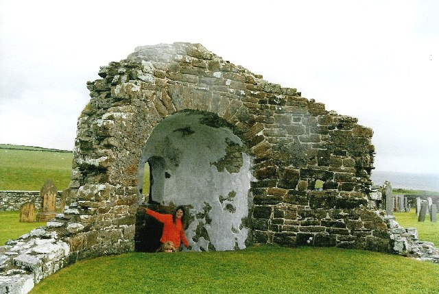 Orphir - round church. The remains of the round church at Orphir, of early medieval date. The church is next to the "Earl's Bu" (booth, or drinking hall), and features in one of the more famous episodes from Orkneyinga Saga. Here, one Christmas in the 1120s, Svein Asleifarson ambushed and slew Svein 'Breast-Rope' as he returned to the Hall from the church.